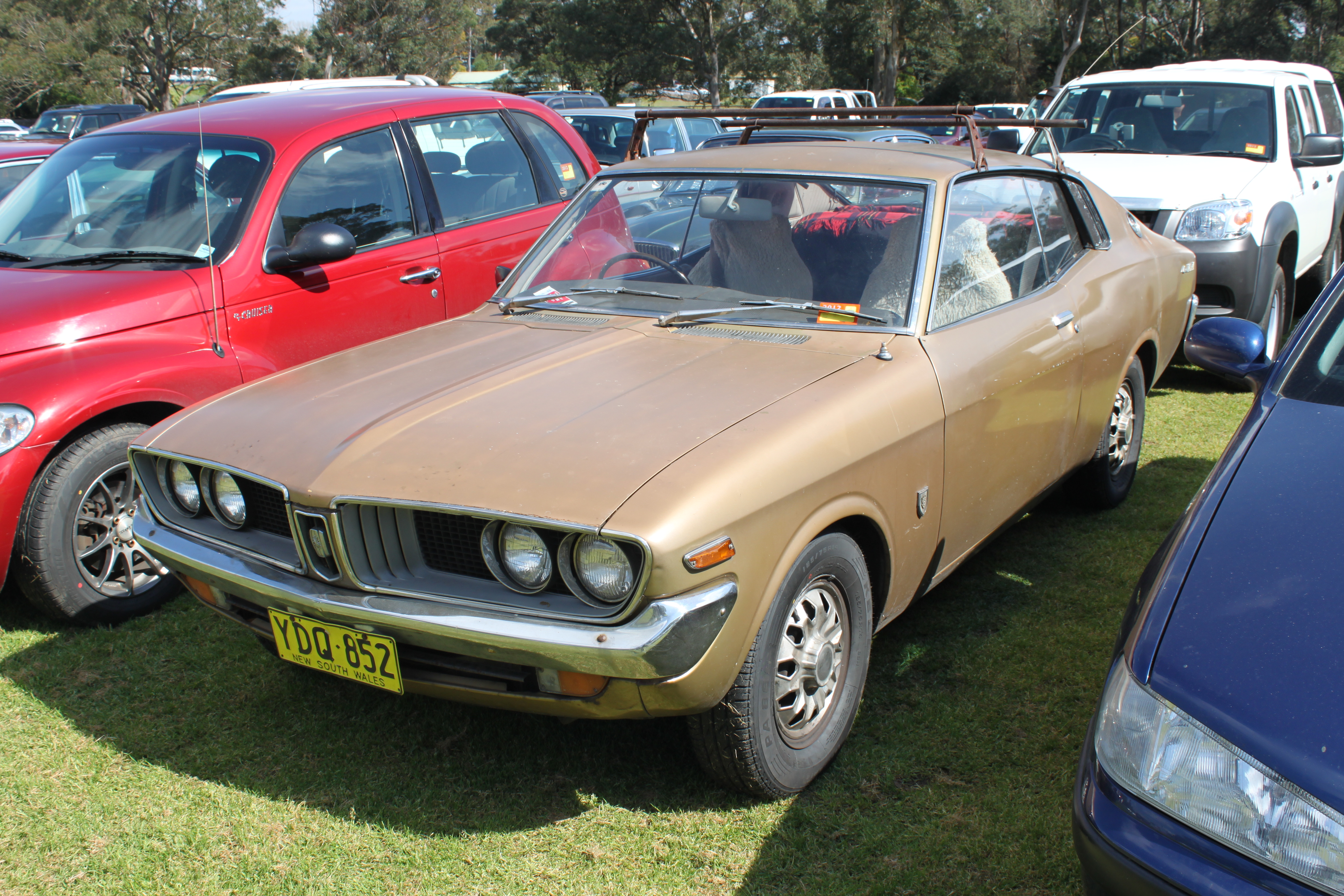 Toyota Corona X20 Mark II